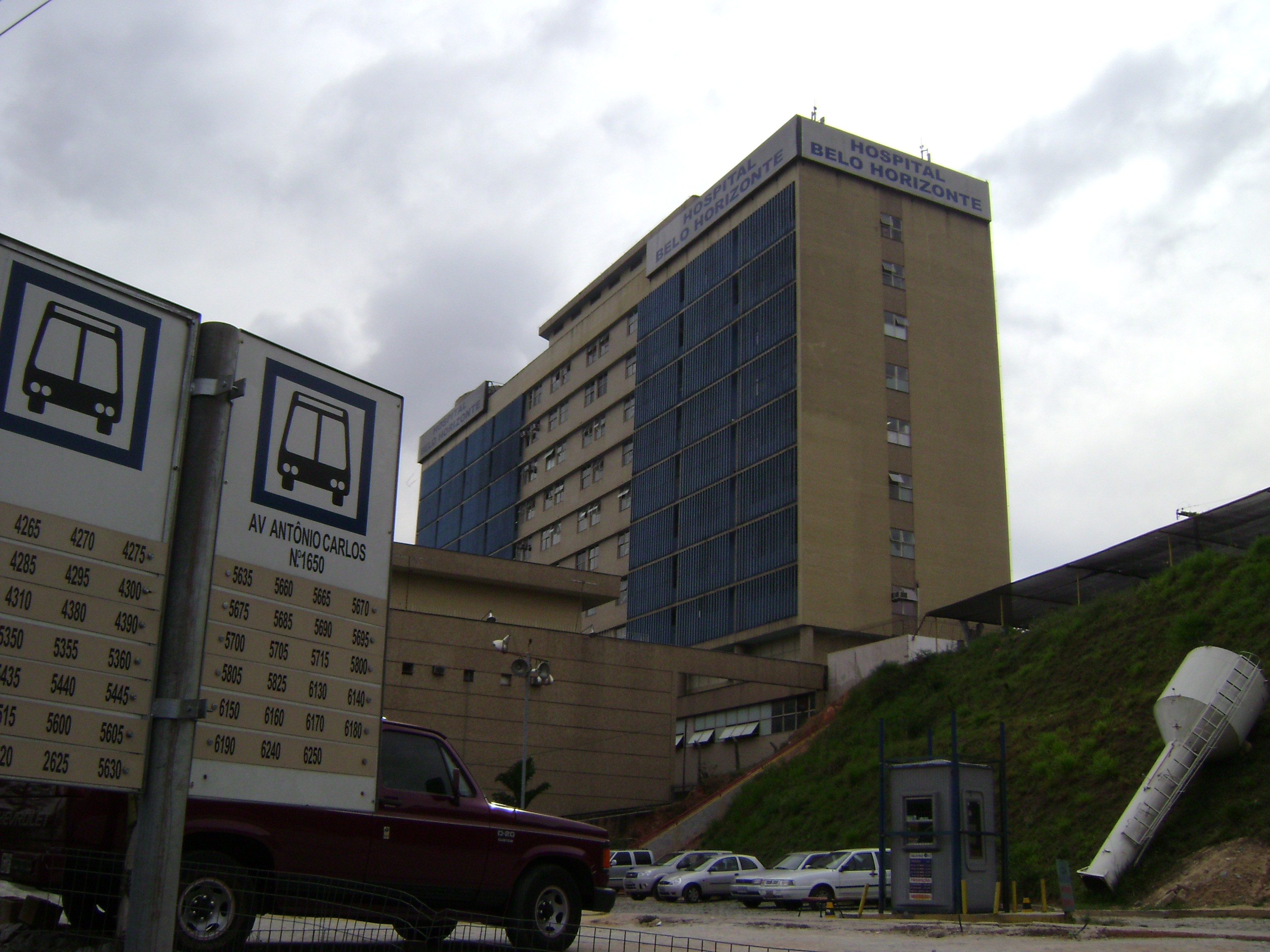 Hospital Belo Horizonte, in Belo Horizonte, Brazil.